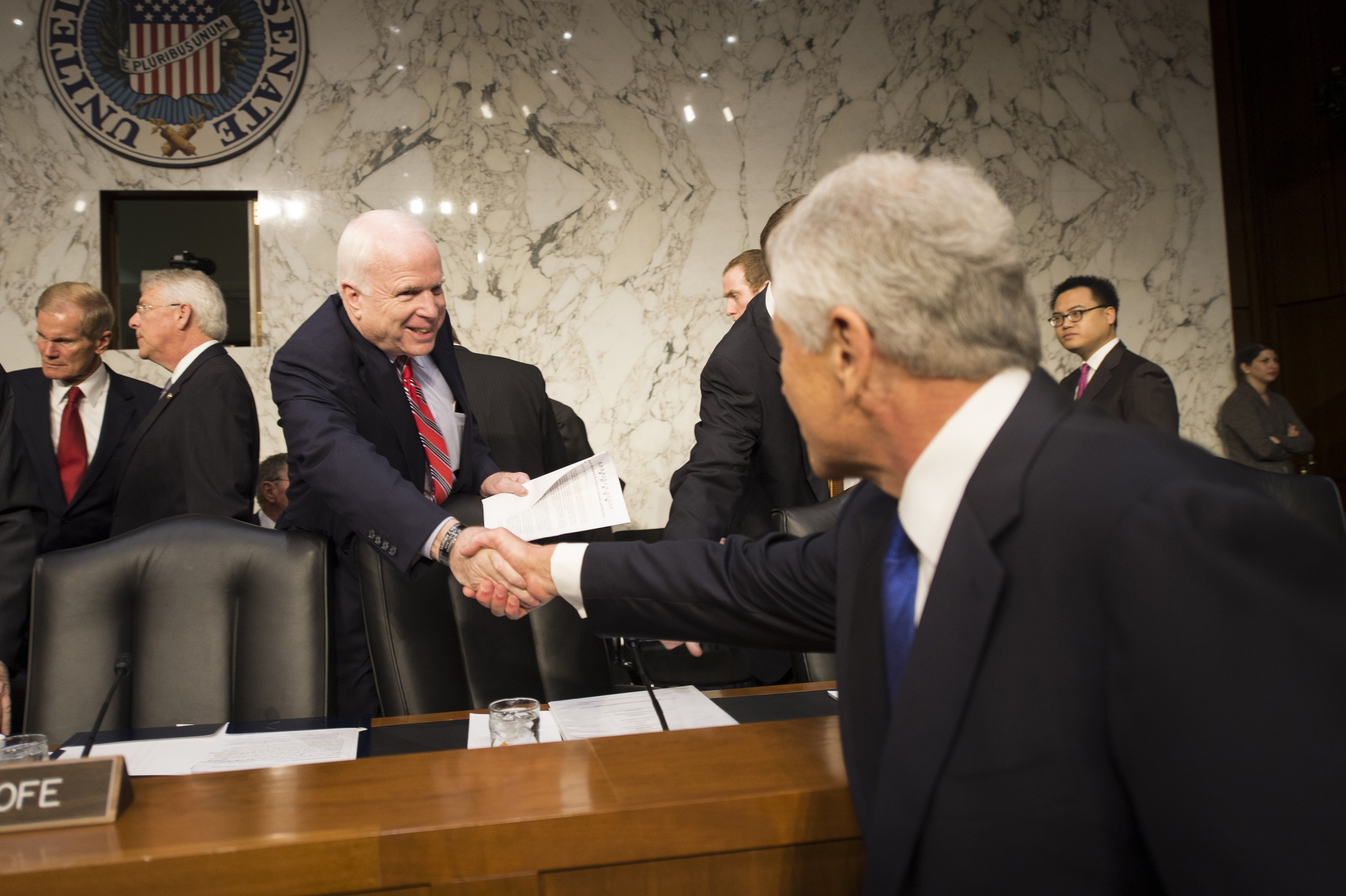 Secretary of Defense Chuck Hagel, greets Senator John McCain at the Senate Hart Office Building in Washington, D.C. April 17, 2013. Hagel testified before the Senate Armed Services Committee on the Defense Authorization Request for Fiscal Year 2014 and the Future Years Defense Program. (Official DoD photo by Marine Corps Sgt. Aaron Hostutler)(Released)